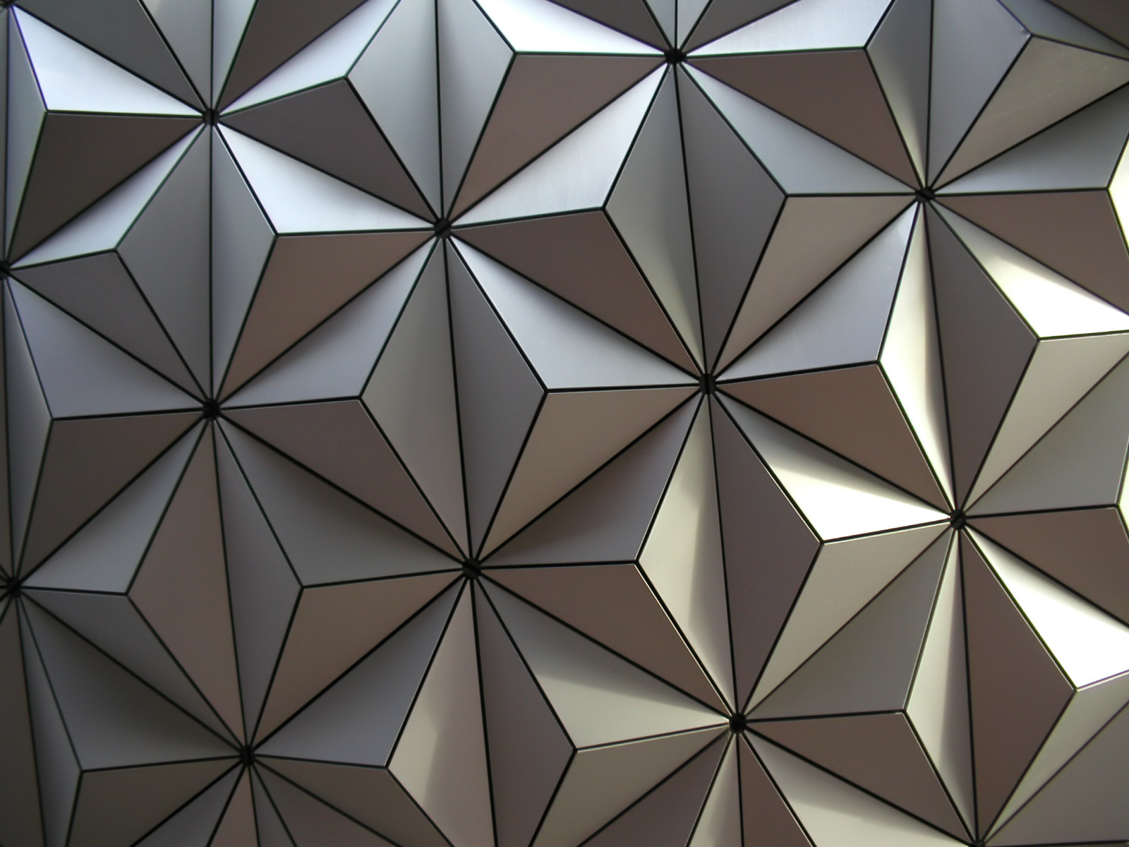 A close-up shot of Spaceship Earth's tiles at Epcot in Walt Disney World, made of Alucobond